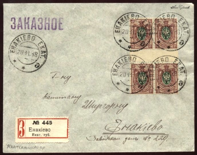 Ukraine 1918 registered envelope sent within Yenakievo, Yekaterinoslav Governorate (now called Dnipropetrovsk) on 20.11.18. Purple straightline handstamp 'Zakaznoe' (Registered) and appropriate registered label. Franked with vertical gutter block of four Russian imperial 35 kopeks stamps (140 kopeks thus), trident overprinted for use in Ukraine. Philatelic use.